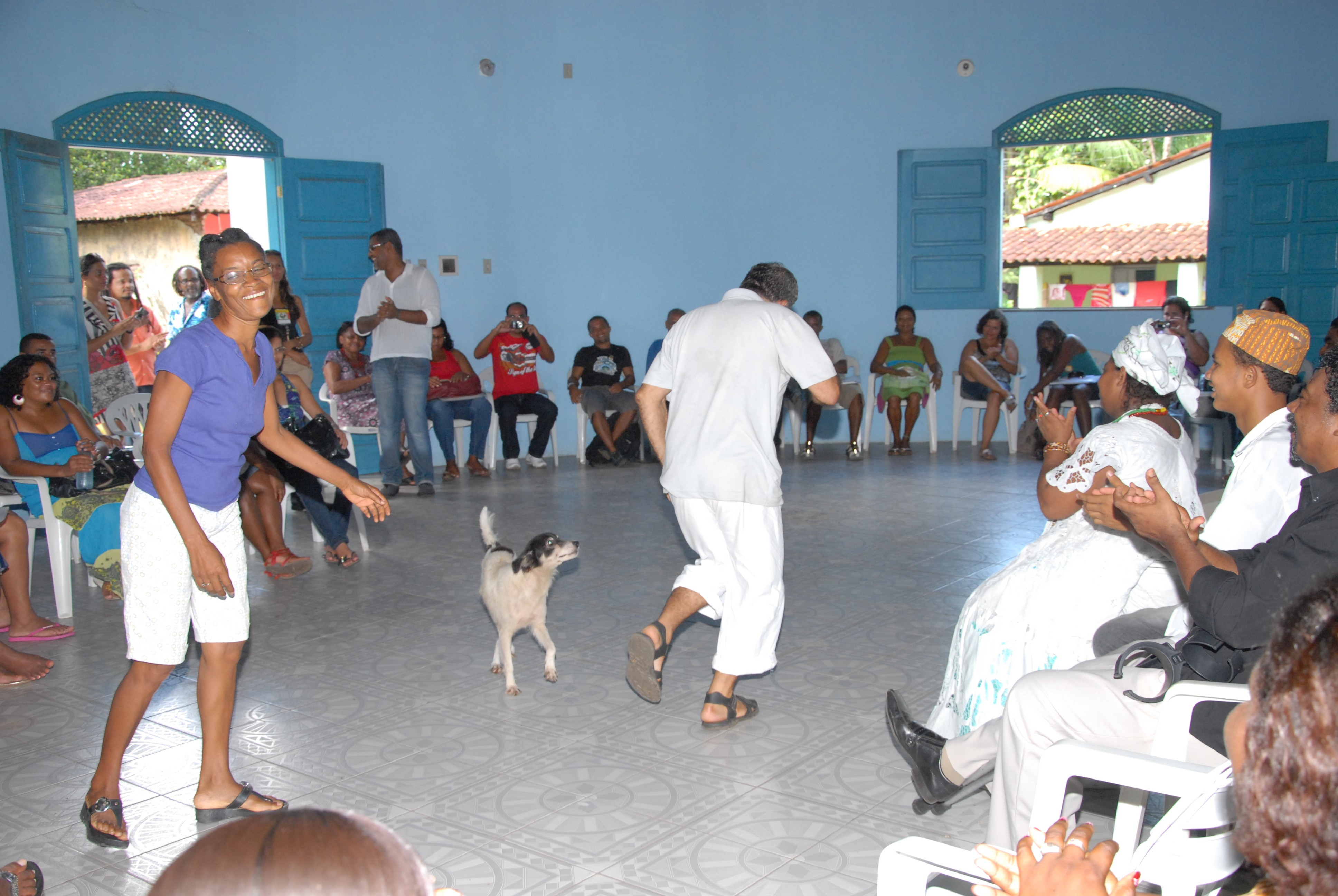 Momento de apresentação